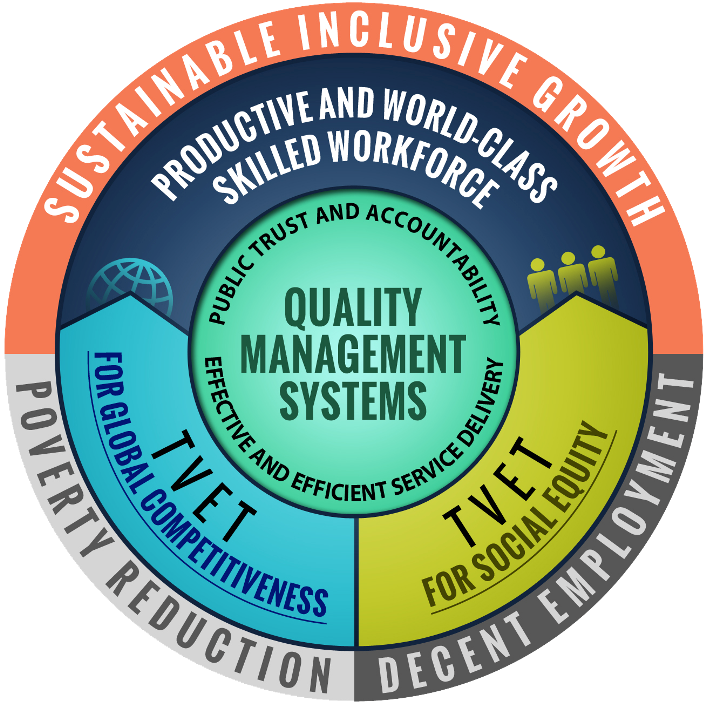 Diagram portraying TESDA's "2-pronged" strategy showing the relation of the agency's TVET program to poverty and unemployment reduction.